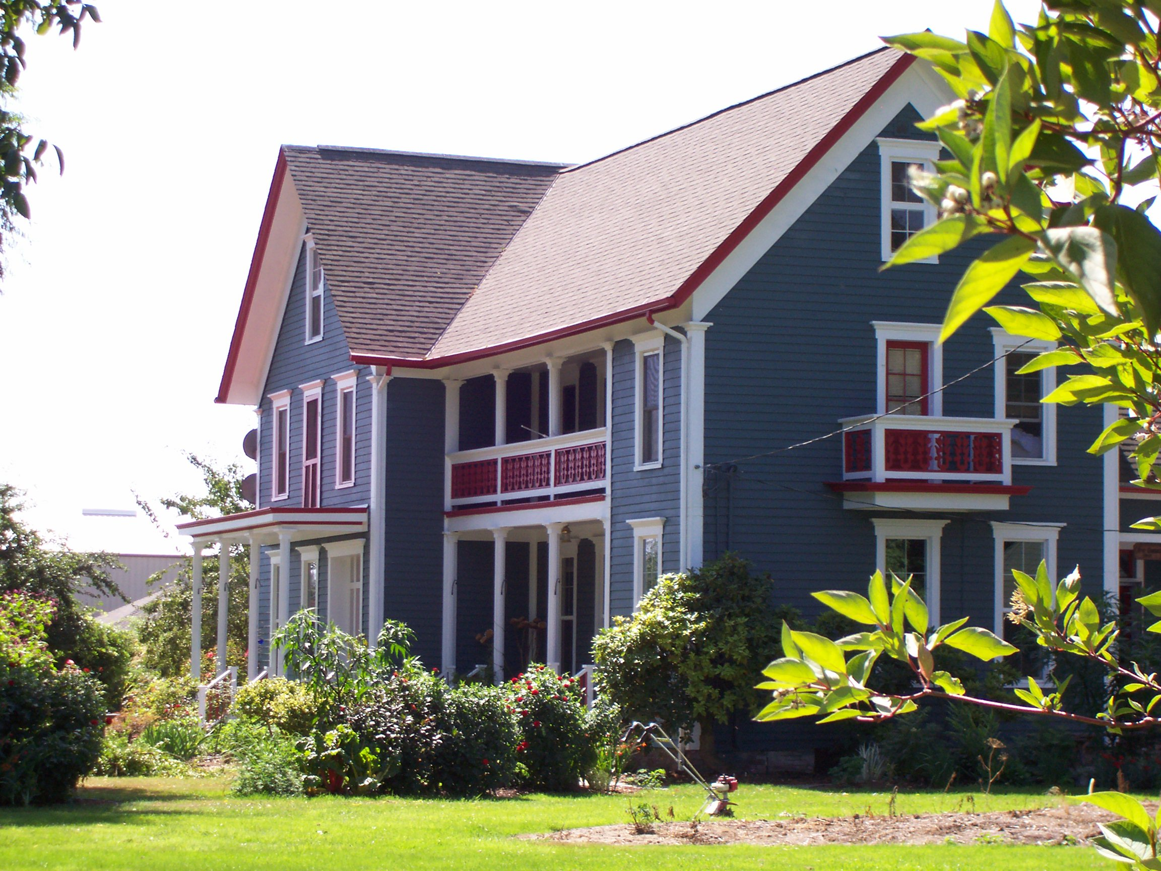 The Porter-Brasfield House in Shedd, Oregon. Listed on the National Register of Historic Places.